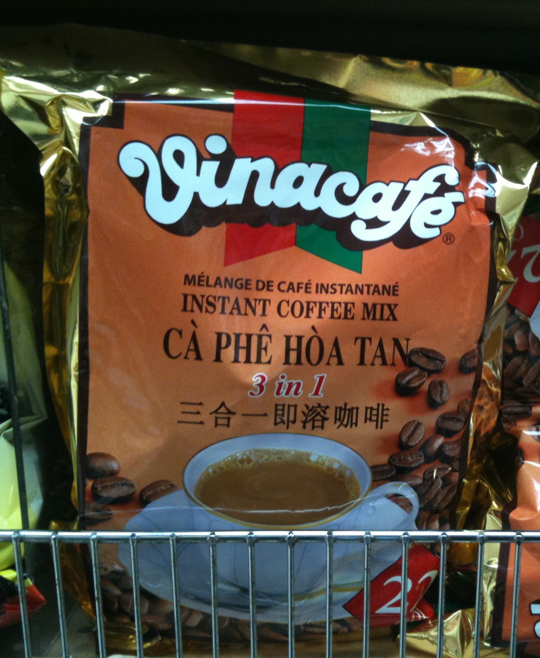 A bag of Vinacafé-brand instant coffee in a shop in Montreal.